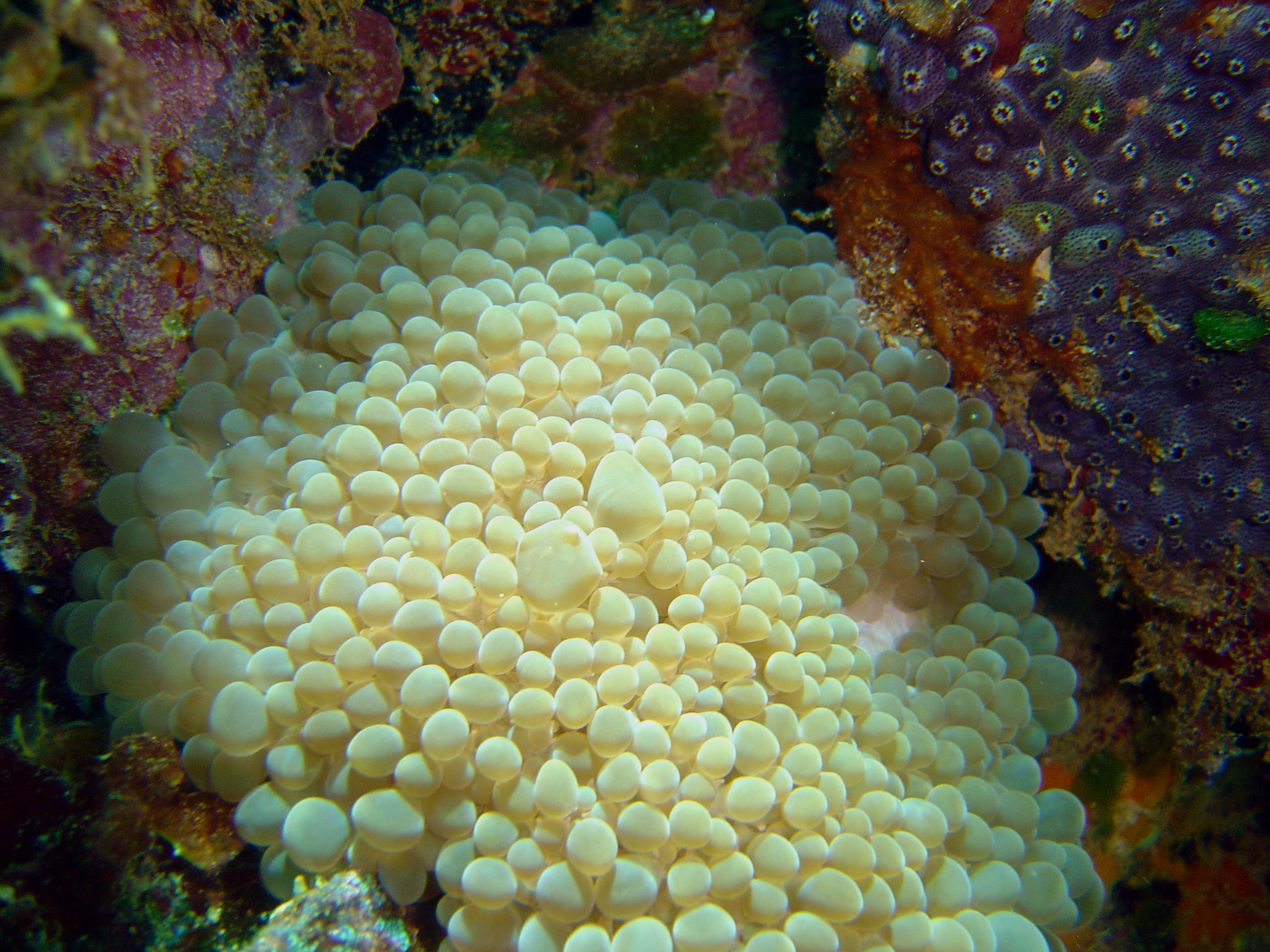 Bubble coral (Plerogyra sinuosa) on Hino Maru. Federated States of Micronesia, Chuuk.